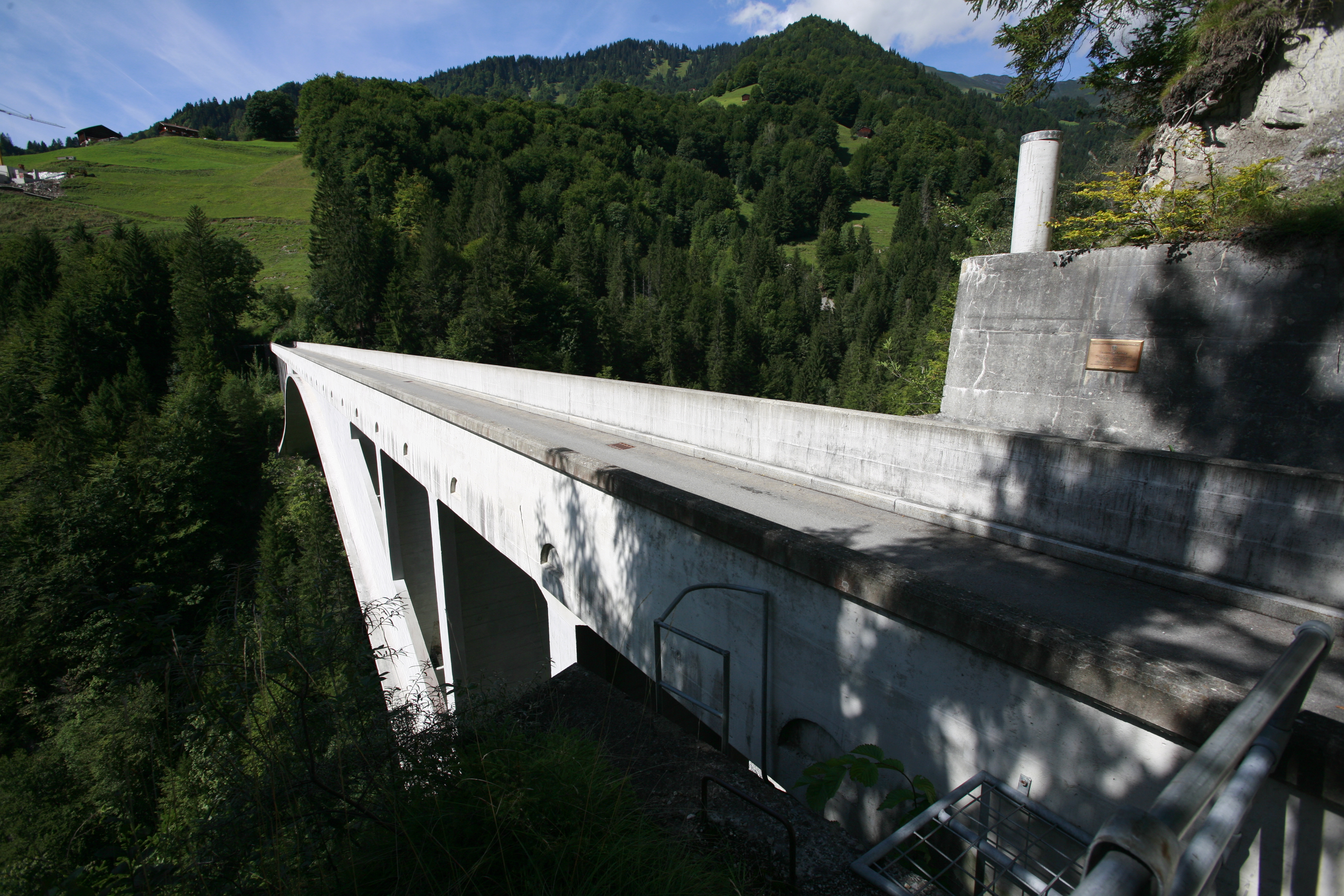 Salginatobel Bridge